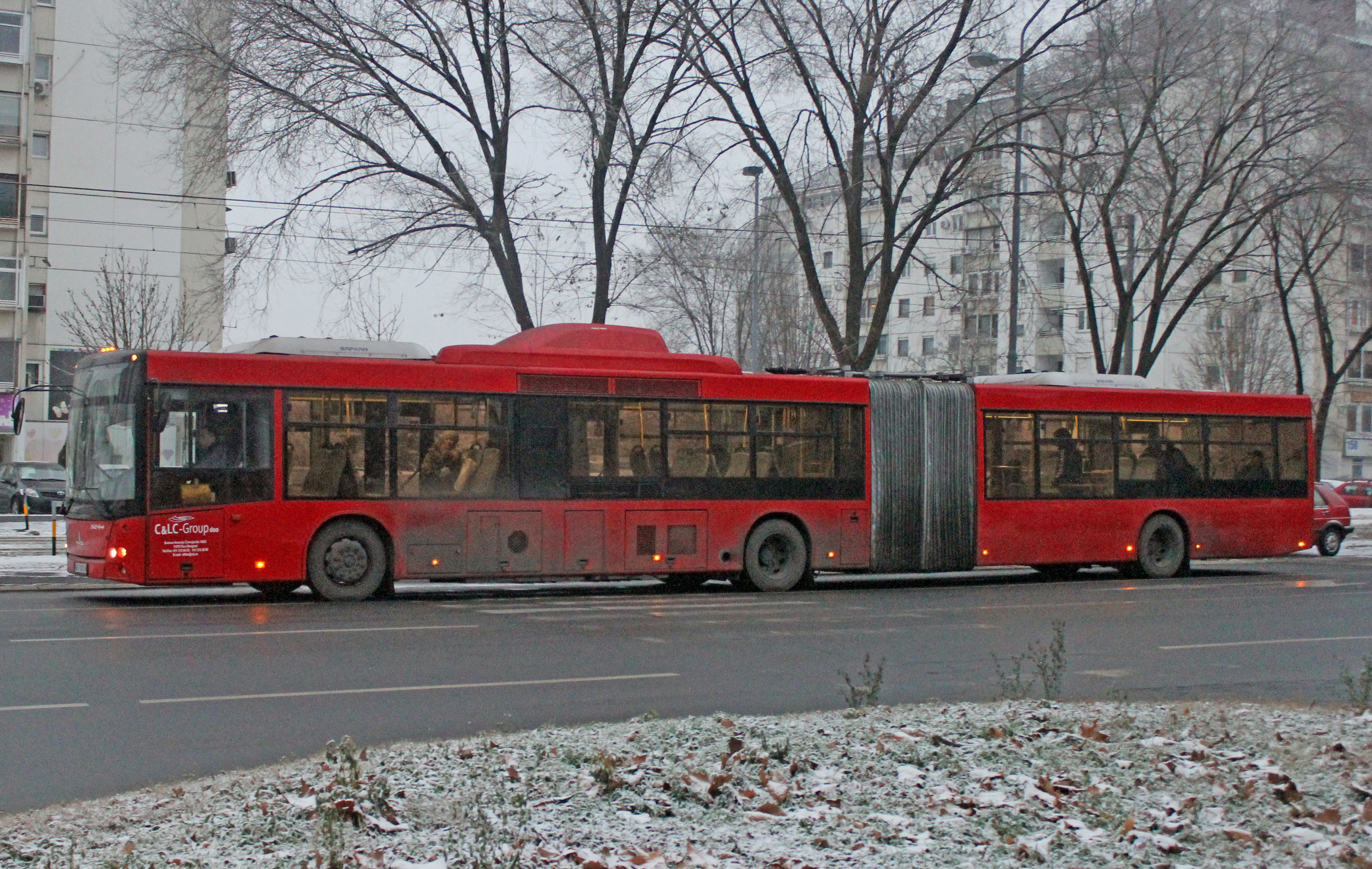 МАZ-215 low-floor articulated public city bus with five doors of C&LС private transport company from Belgrade on city bus line No. 604.